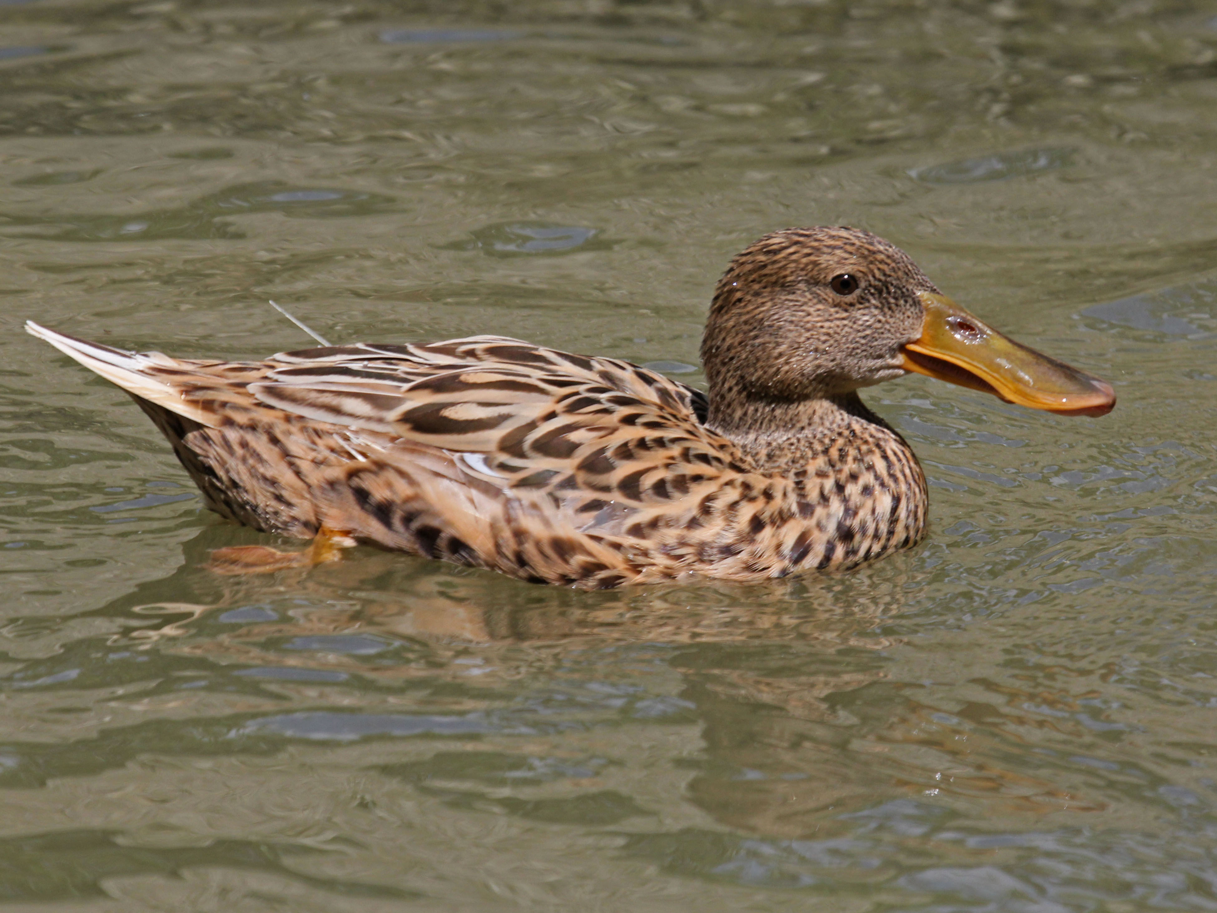 Northern Shoveler (Anas clypeata) at Sylvan Heights Waterfowl Park in Scotland Neck, North Carolina.